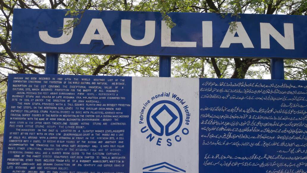 text board in english and urdu for tourist guidance